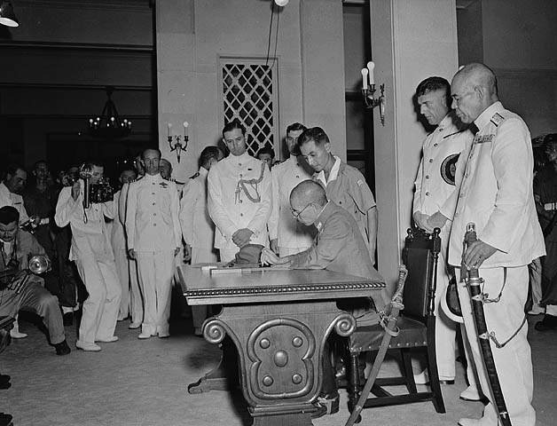 Japanese surrender ceremony. Lt. Gen. Tanaka signs surrender document while Vice Admiral Fujita waits his turn, Government House.